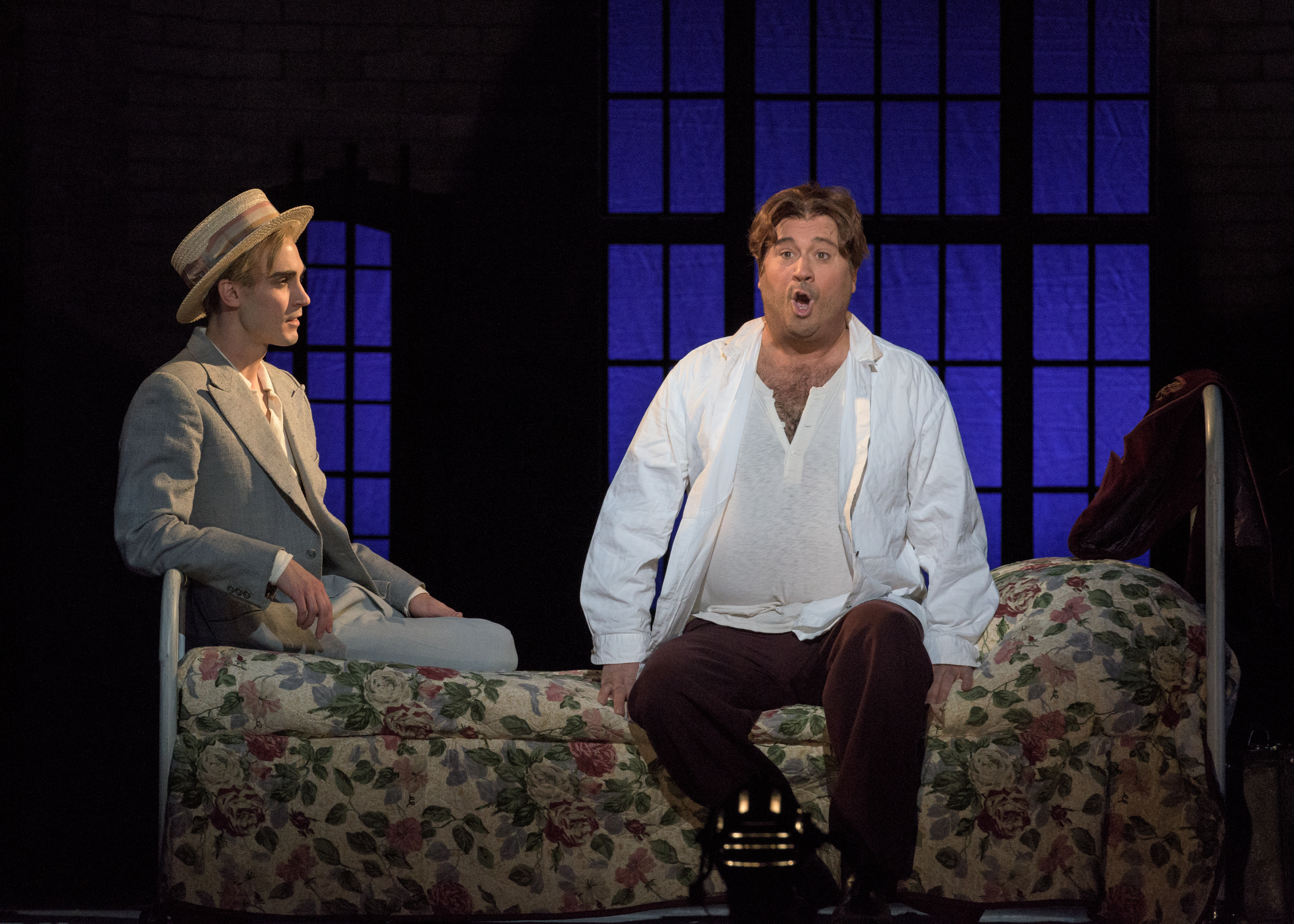 February 4, 2015 Academy of Music Philadelphia, PA Photo by Steven Pisano.